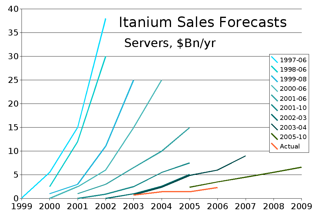 Itanium Sales Forecasts chart